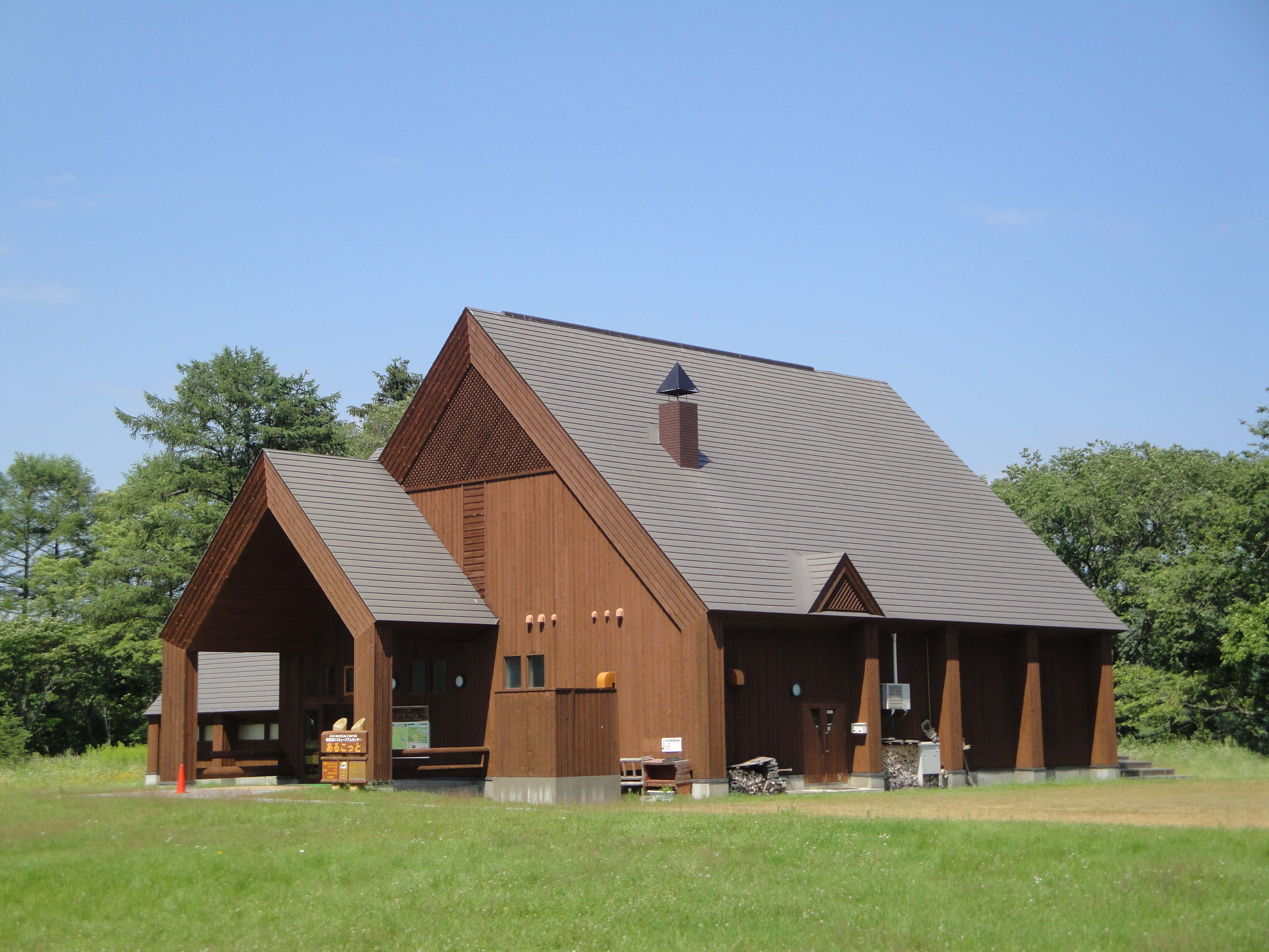 Touroko Eco Meseum Center